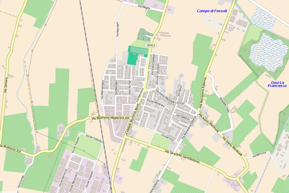 This map may be incomplete, and may contain errors. Don't rely solely on it for navigation.